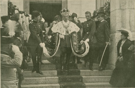 Coronation of king Peter I of Serbia (1904).